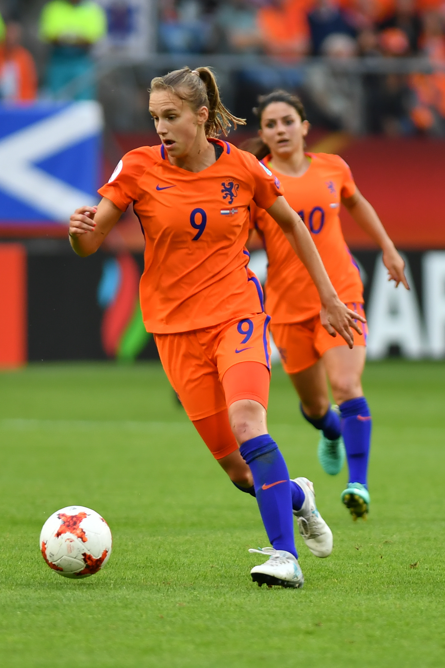 16/7/2017, Utrecht, Netherlands, sports, soccer, UEFA Womens Euro 2017 - The Netherlands vs Norway.